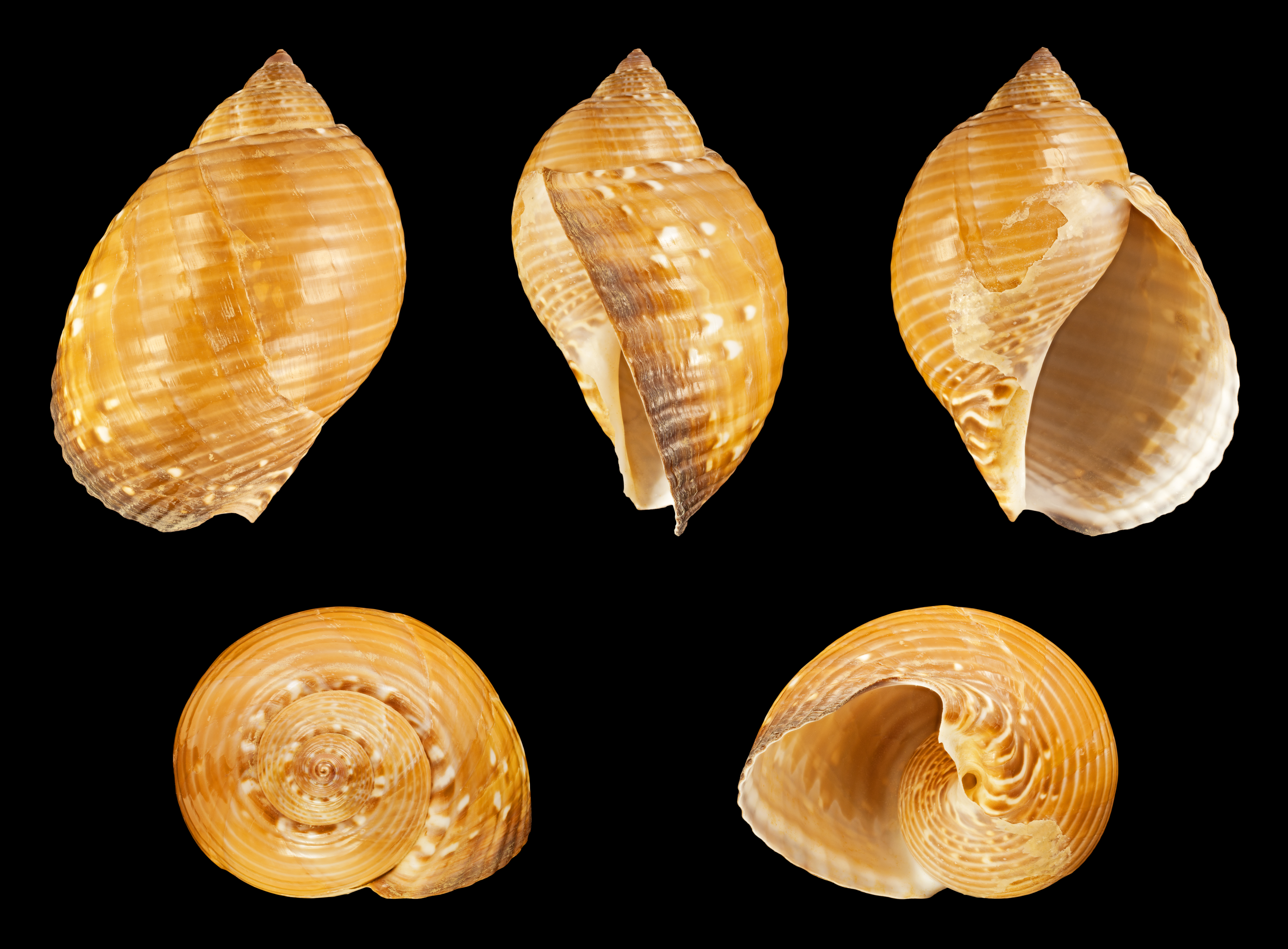 Tonna perdix (Linné, 1758), Partridge Tun, brown form; length 11.8 cm; Originating from the Philippines. Shell of own collection, therefore not geocoded.